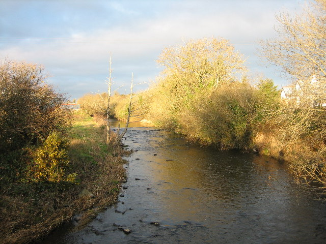 Ballynahinch River. Looking upstream from Annacloy Bridge.